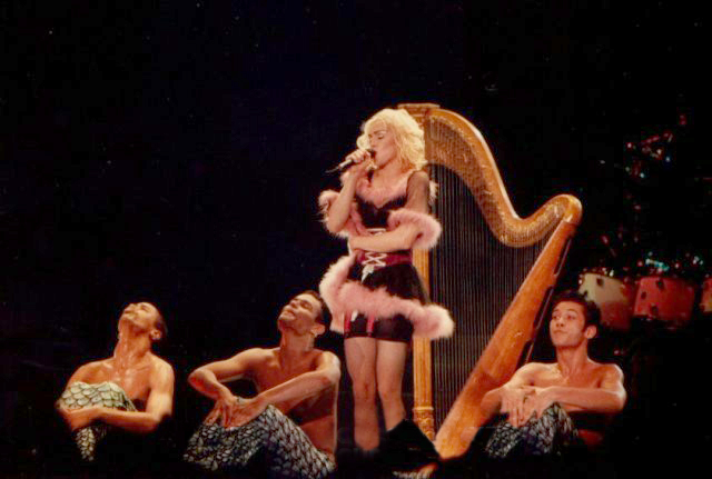 Photo Taken By a Fan During One of The Concerts of 1990